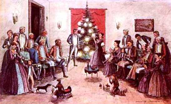 General and Mrs. Riedesel celebrated Christmas 1781 in Canada, and are credited with popularizing the German traditional Christmas Tree in the Americas. The original painting is in the Governor's Museum in Sorel, Quebec.